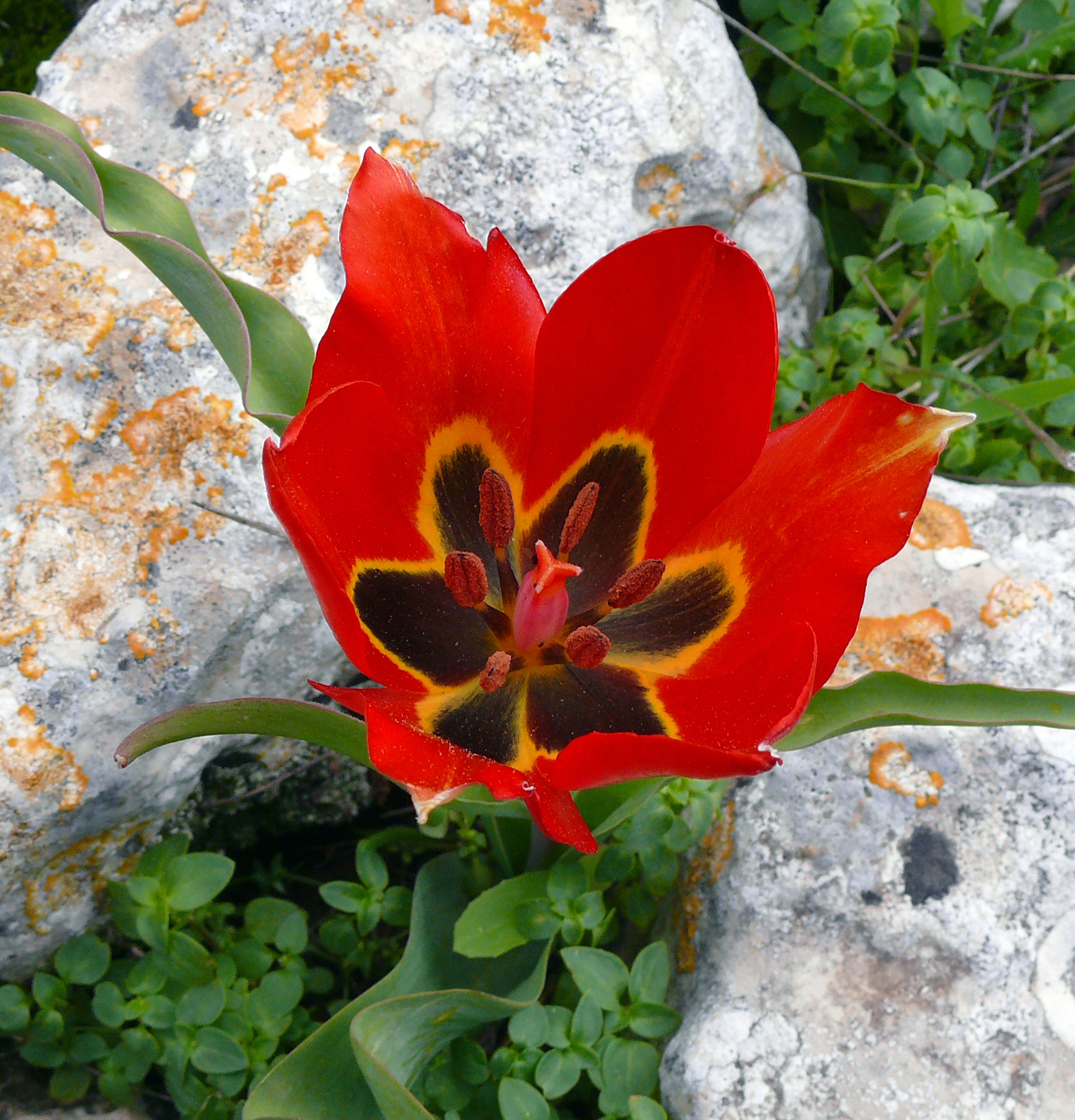 Tulipa agenensis, Israel.